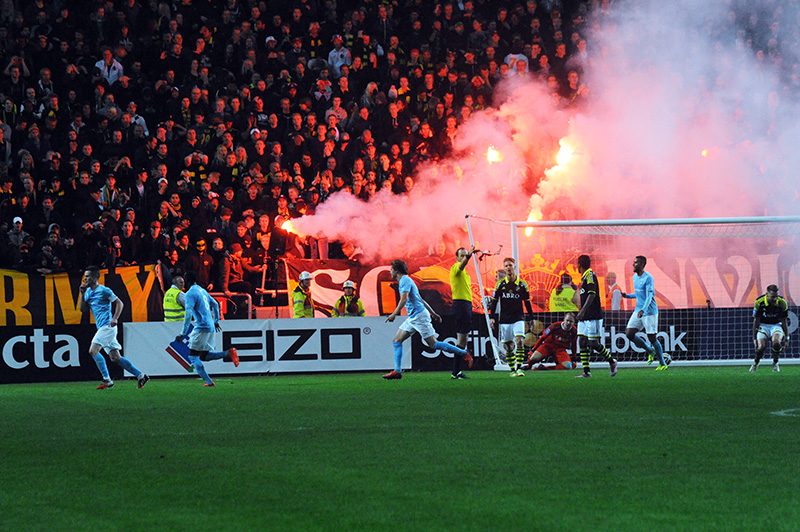 Markus Rosenberg scores the victory goal (2-3) in the final minutes. With that win, Malmö FF will celebrate the championship again.